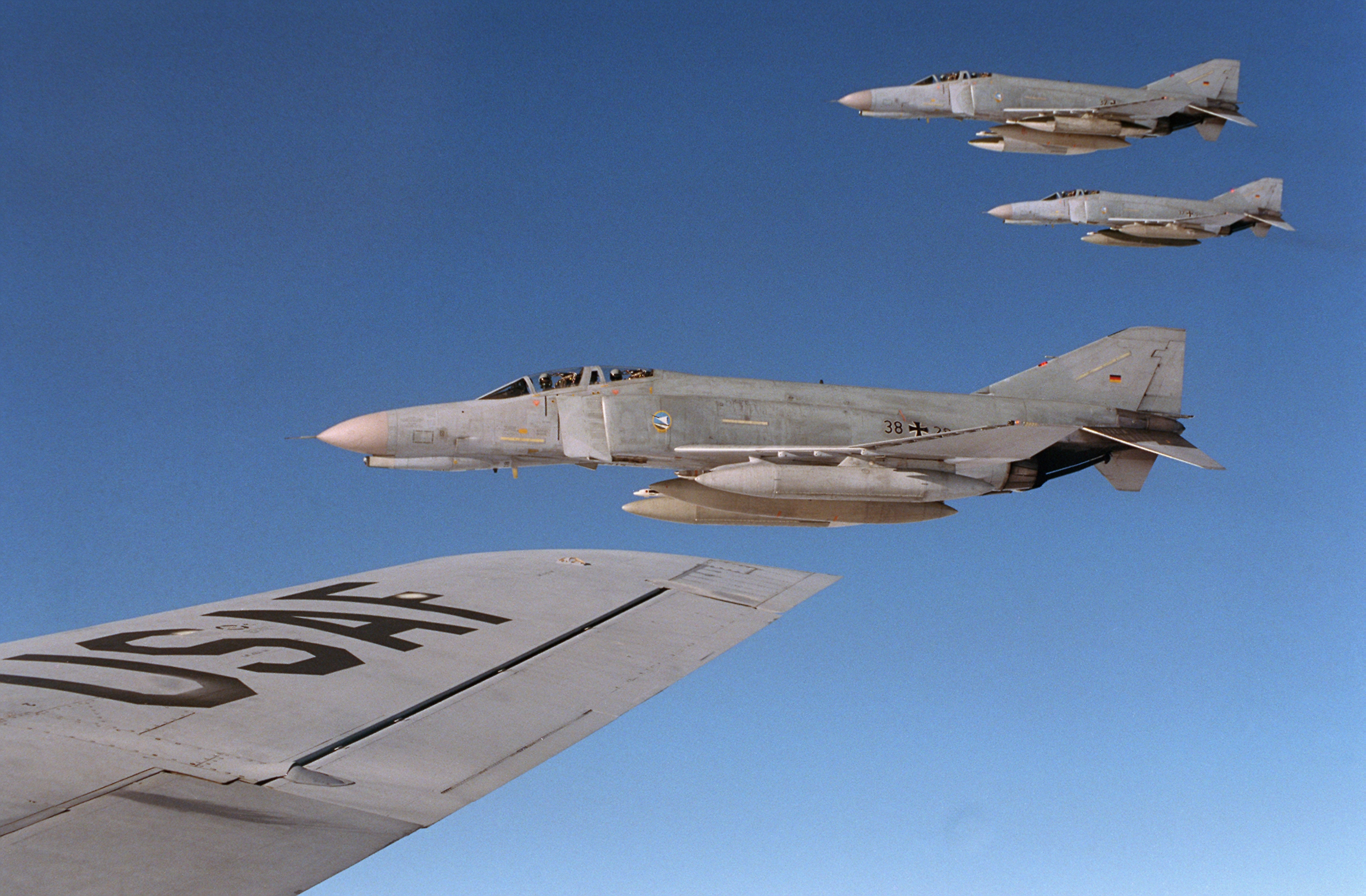 High over Germany, three German Luftwaffe McDonnell Douglas F-4F Phantom II fighters from Jagdgeschwader 74 (JG 74, 74th Fighter Wing), form up off the right wing of a U.S. Air Force Boeing KC-135R Stratotanker from 100th Aerial Refueling Wing, RAF Mildenhall (UK), the as they wait for their turn to refuel.